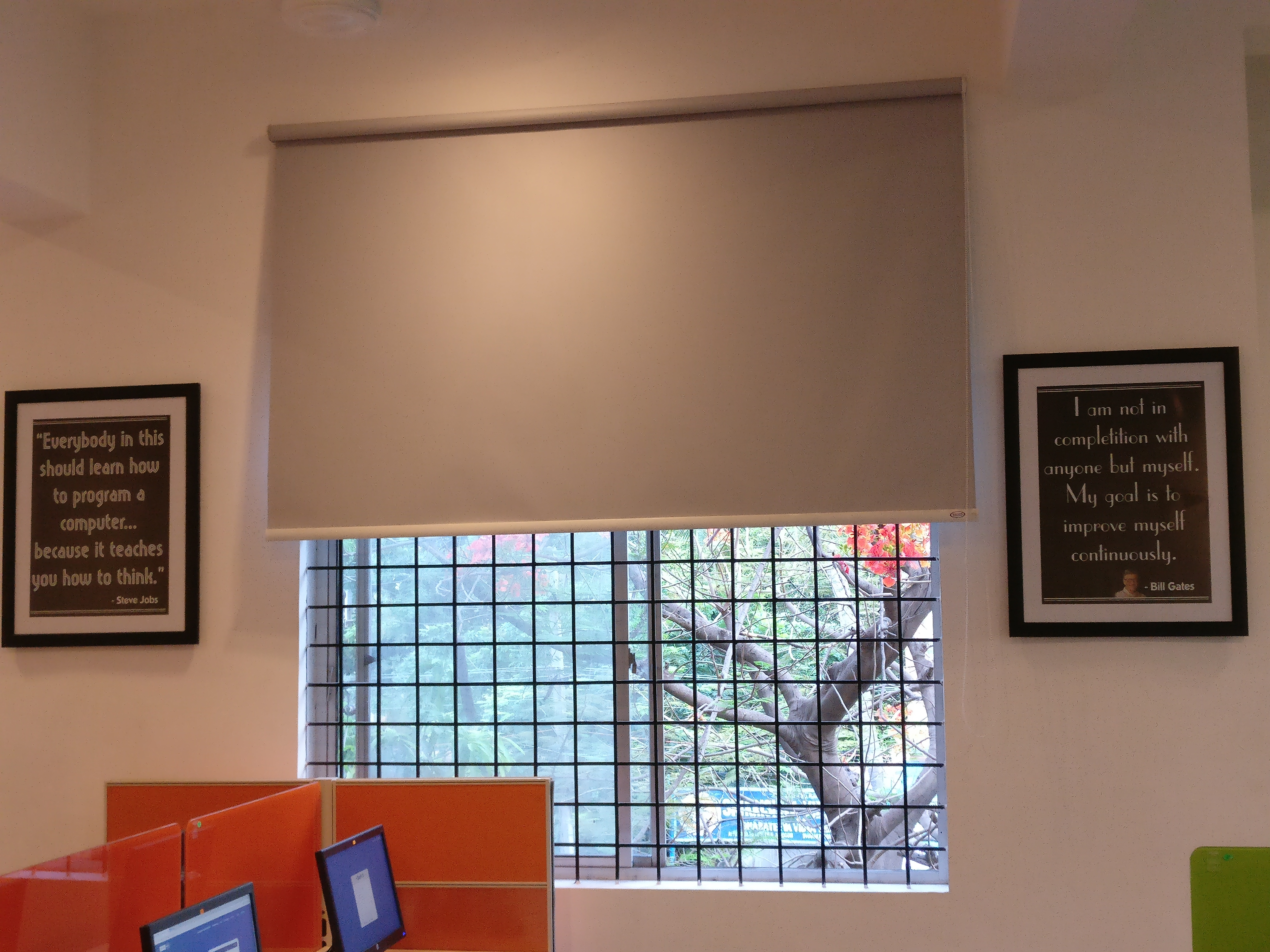 Signs in Visakhapatnam Public Library, Visakhapatnam, Andhra Pradesh, India.